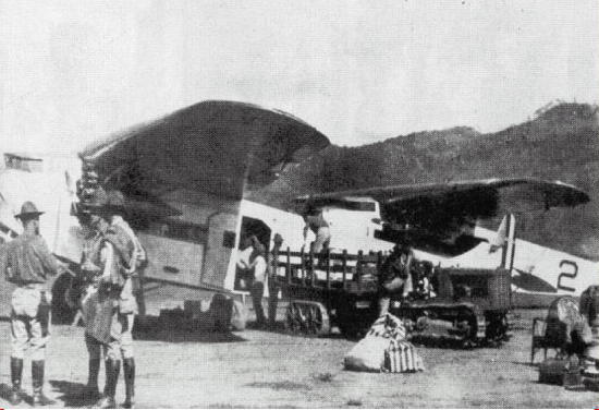 US Air Force Fokker C-2As in Ocotal. Nicaragua, 1929